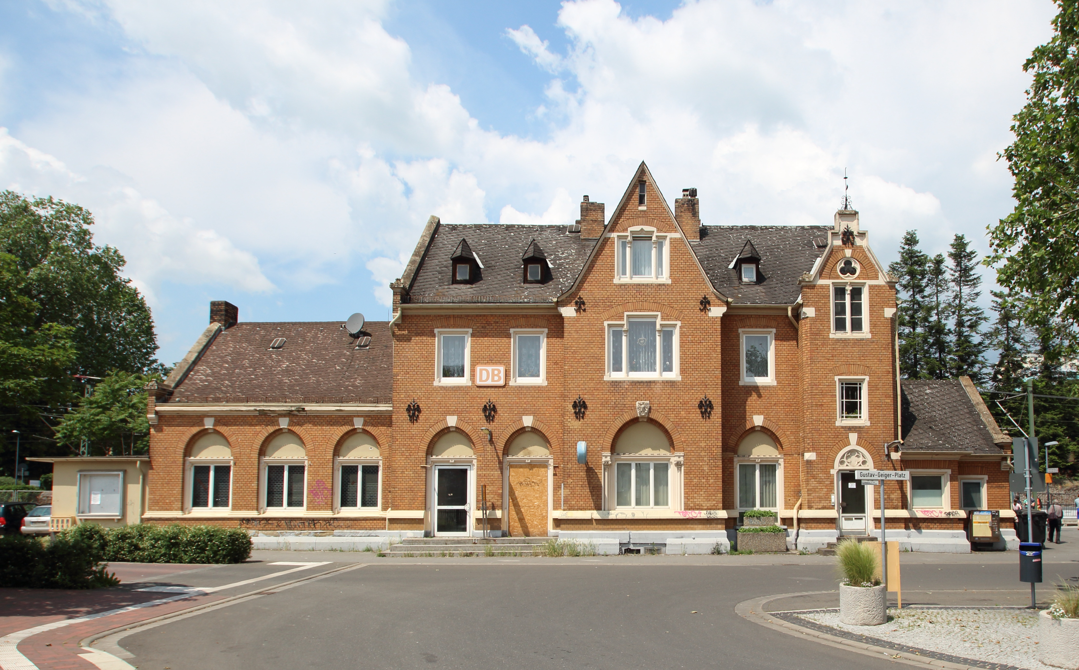 Train station Geisenheim, Hesse, Germany. Built in 1886, expanded 1900.